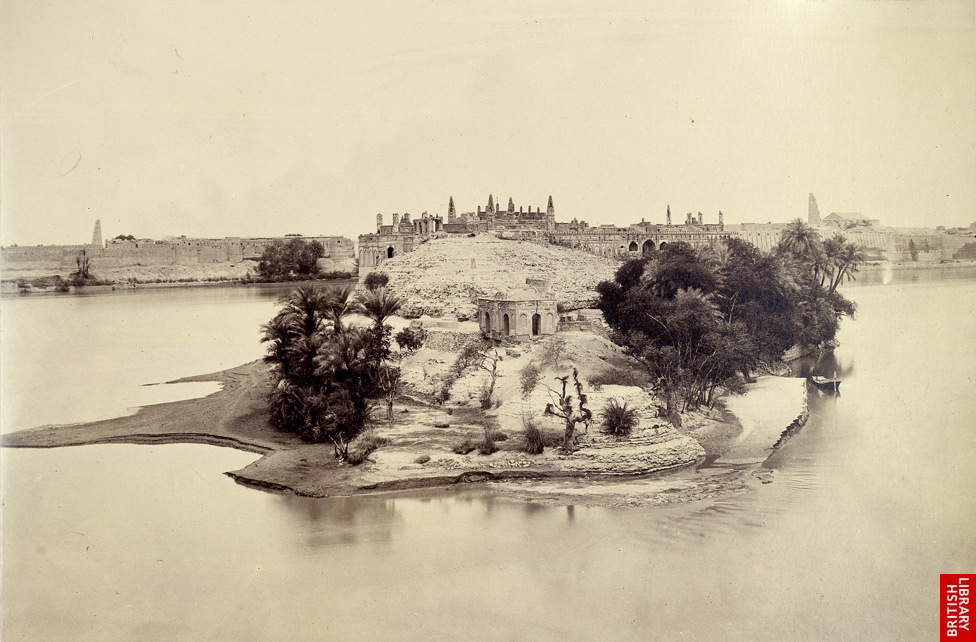 This print was taken by an unknown photographer in the 1860s. It shows a general view of the city of Sukkur situated in upper Sind province in modern-day Pakistan. The city lies on the west bank of the River Indus as it runs through the Thar Desert. In 1888 Landsdowne Bridge was constructed over the river providing a railway link between Sukkur and the rest of the sub-continent. Sukkur lies in the heart of the Indus Valley, the location of the earliest civilisations in South Asia, with Harappa and Mohenjo Daro both sites local to the area. Sukkur itself has remains dating to the late stone age era. Source: British Library